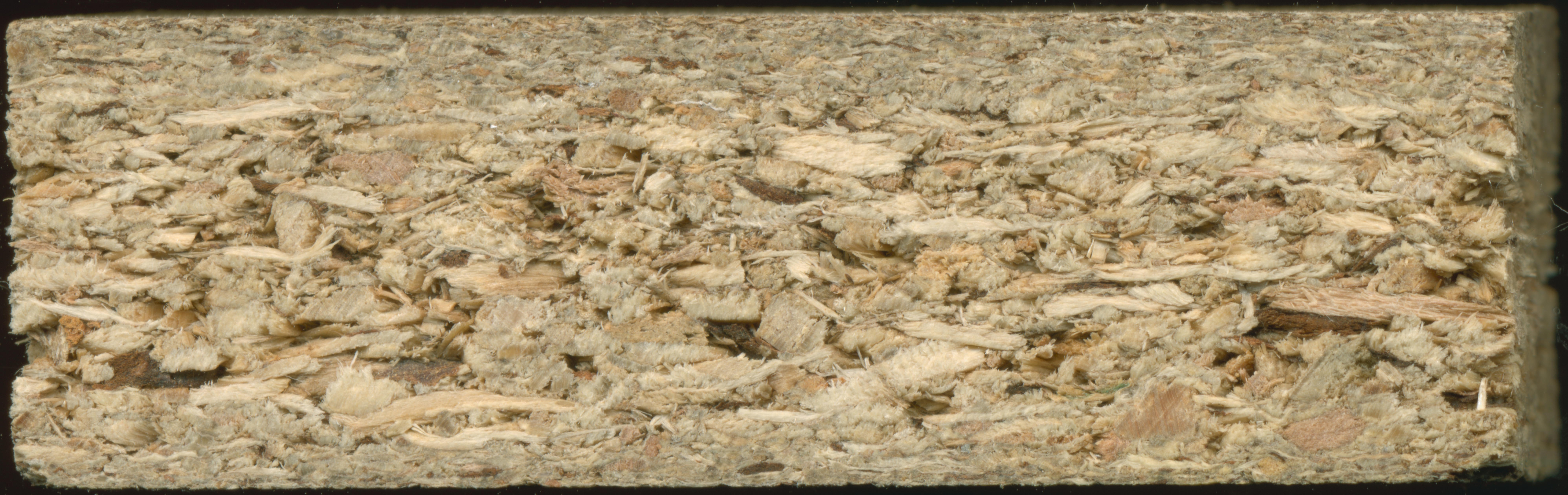 Close up to the cut face of a particle board